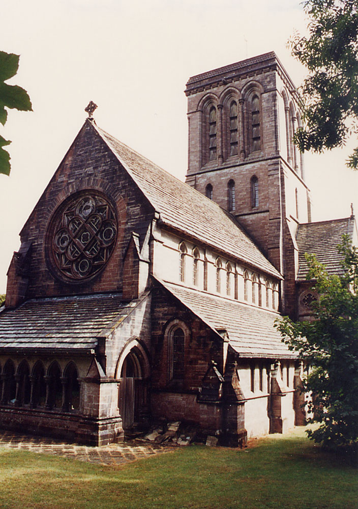 St James' parish church, Kingston, Purbeck, Dorset, seen from the southwest